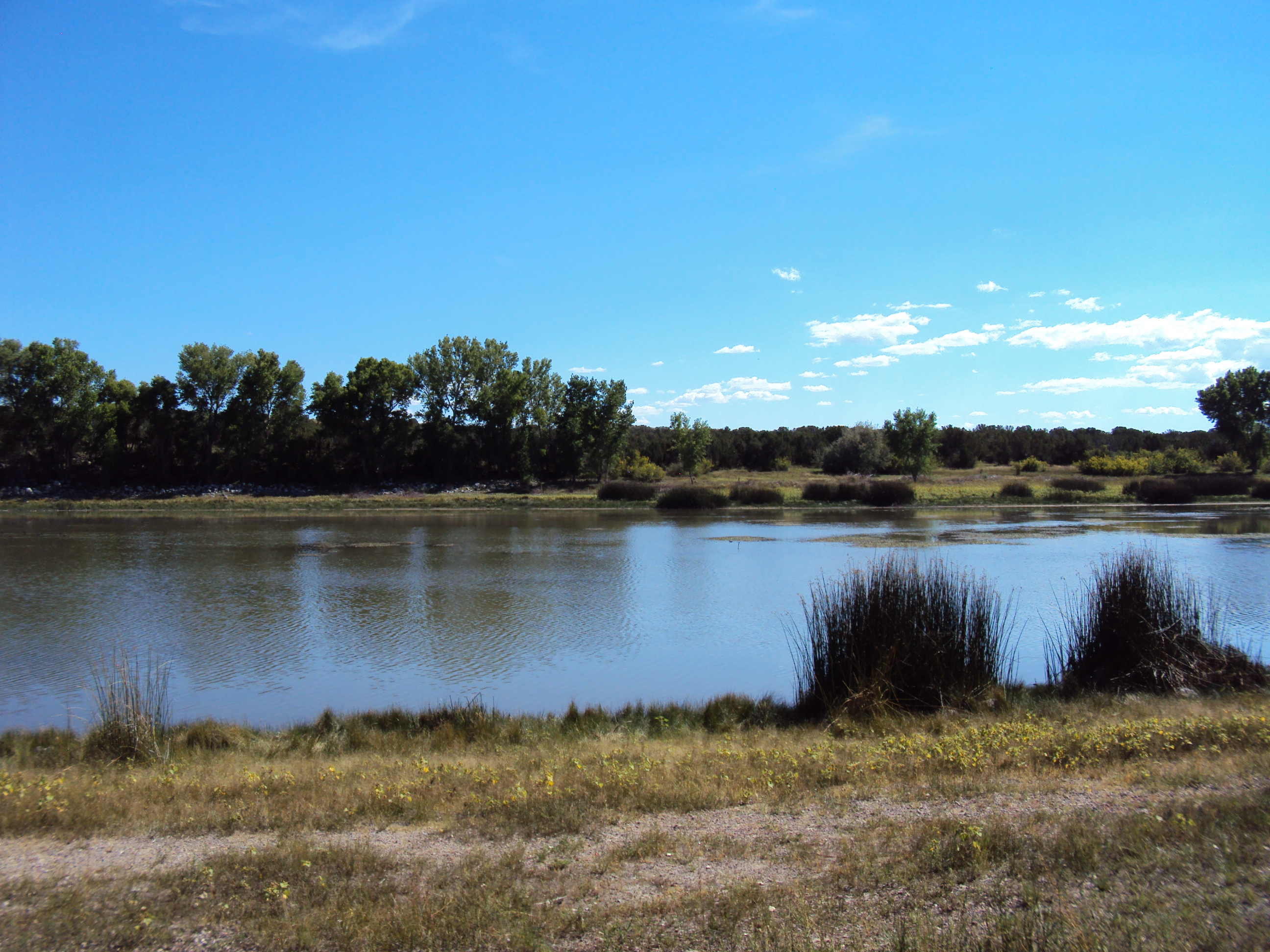 The Concho Lake Recreational Area, open to the public and managed by AZ Department of Game and Fish.